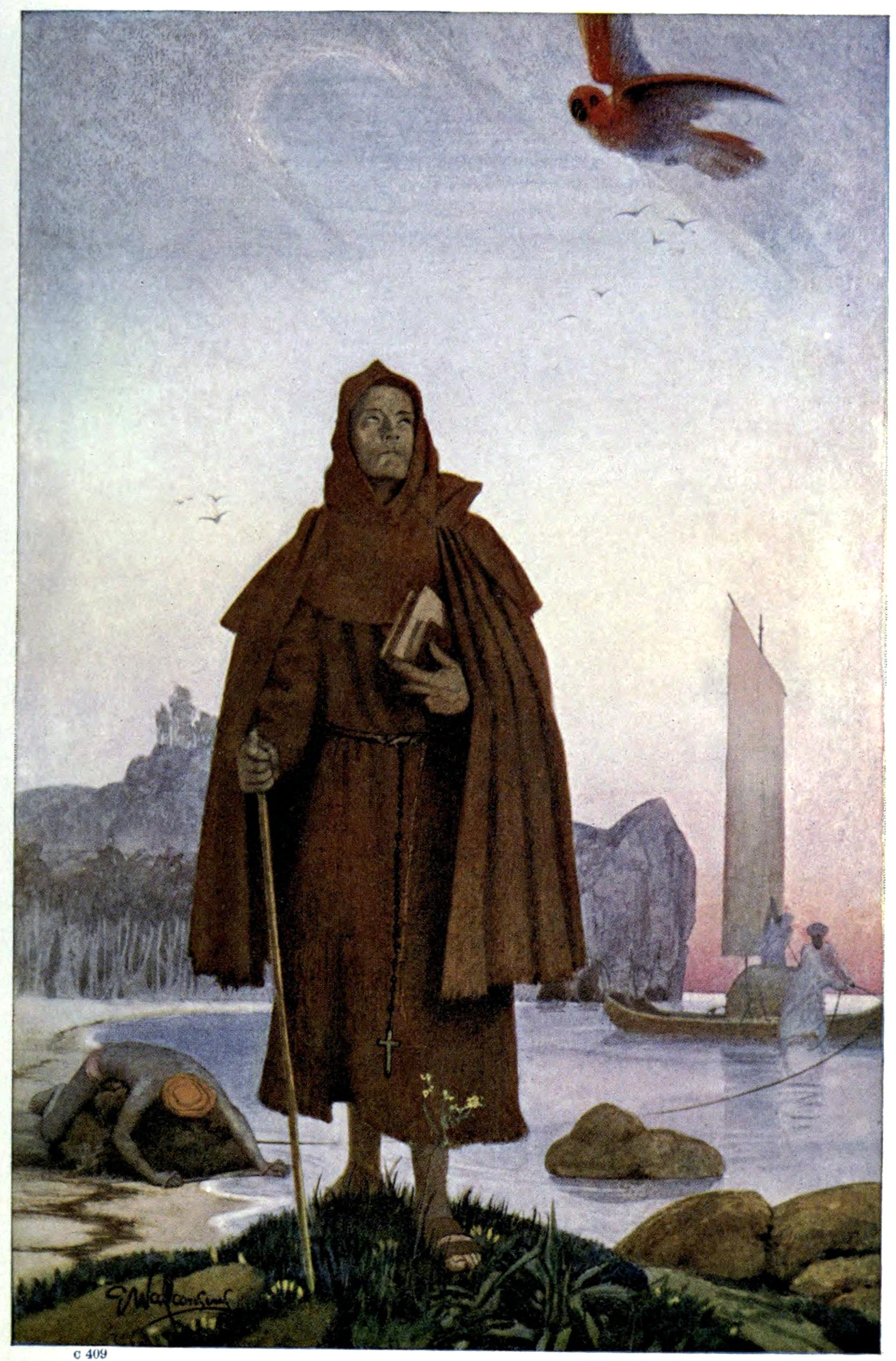 Pioneers in India by Johnston, Harry Hamilton, Sir, 1858-1927 Publication date 1913 Topics India -- Discovery and exploration, India -- History European settlements 1500-1765, India -- History British occupation, 1765-1947 Publisher London [etc.] : Blackie and son, limited Collection cdl; americana Digitizing sponsor MSN Contributor University of California Libraries Language English Bookplateleaf 4 Call number SRLF:LAGE-230522 Camera 5D Collection-library SRLF Copyright-evidence Evidence reported by alyson-wieczorek for item pioneersinindia00johniala on June 18, 2007: no visible notice of copyright; stated date is 1913. Copyright-evidence-date 20070618175118 Copyright-evidence-operator alyson-wieczorek Copyright-region US Identifier pioneersinindia00johniala Identifier-ark ark:/13960/t8bg2ks7d Identifier-bib LAGE-230522 Lcamid 1020705142 Openlibrary_edition OL7099511M Openlibrary_work OL1094605W Pages 372 Full catalog record MARCXML